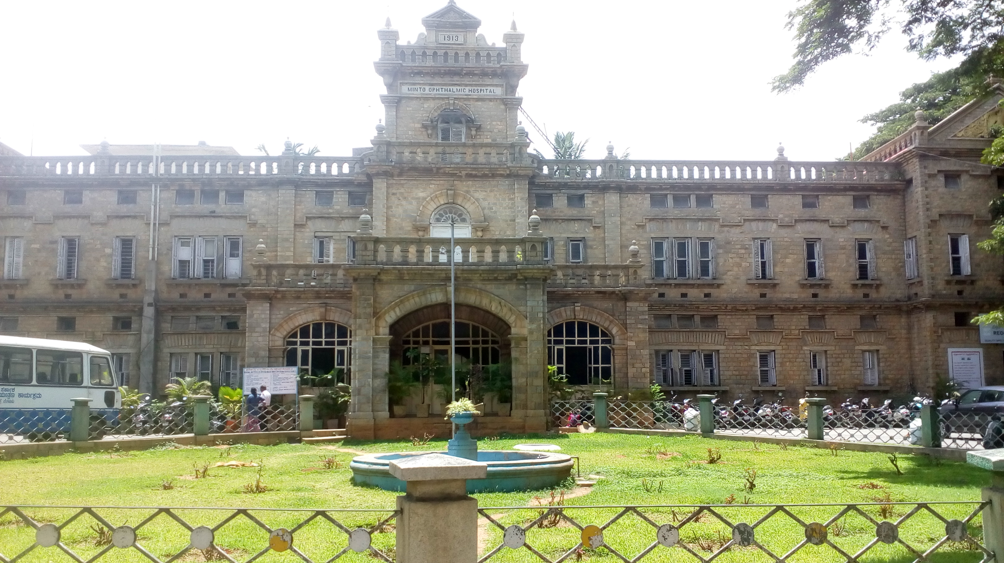 Photo from front gate of Minto eye hospital